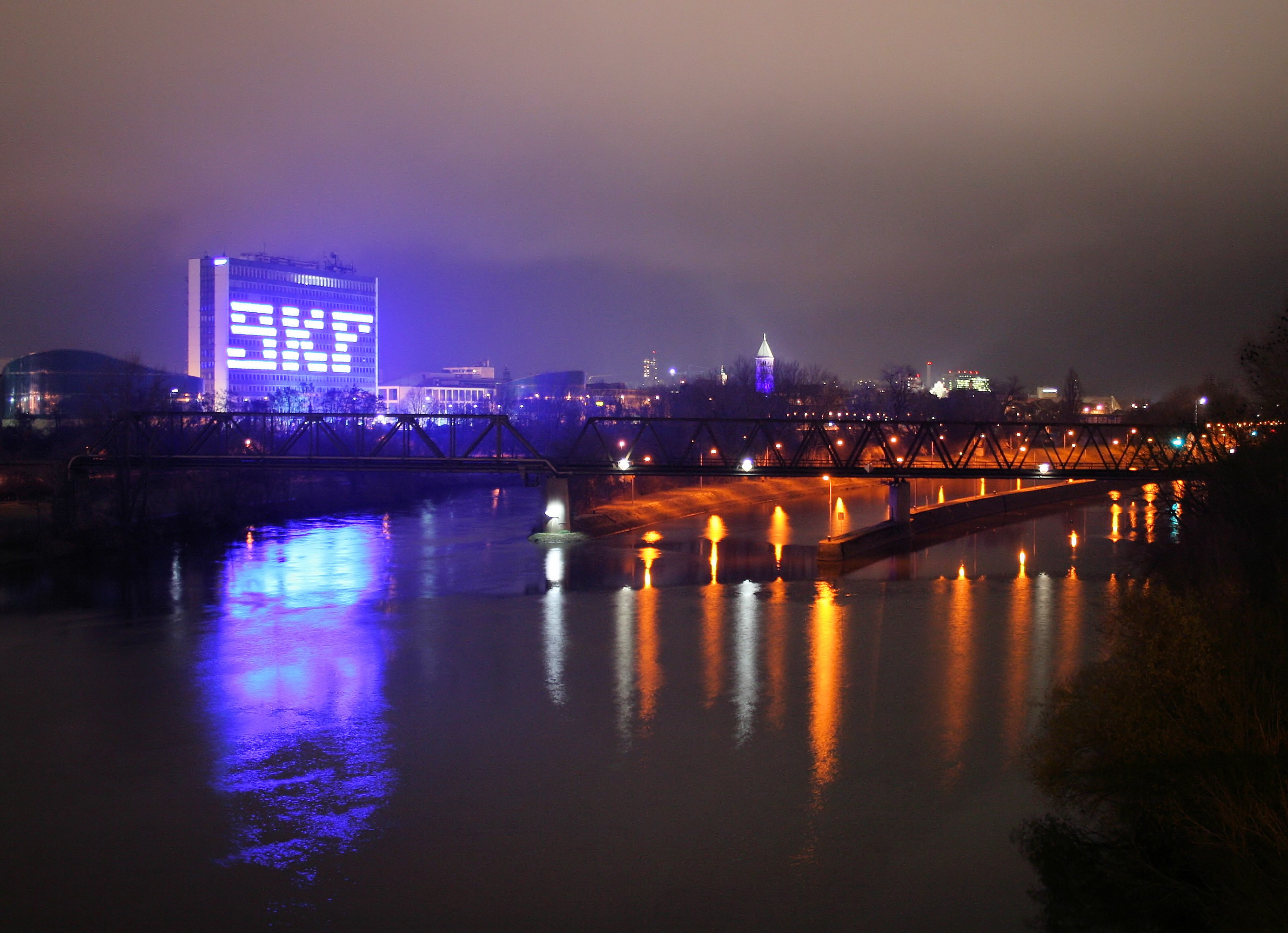 the city of Schweinfurt and the Main by night